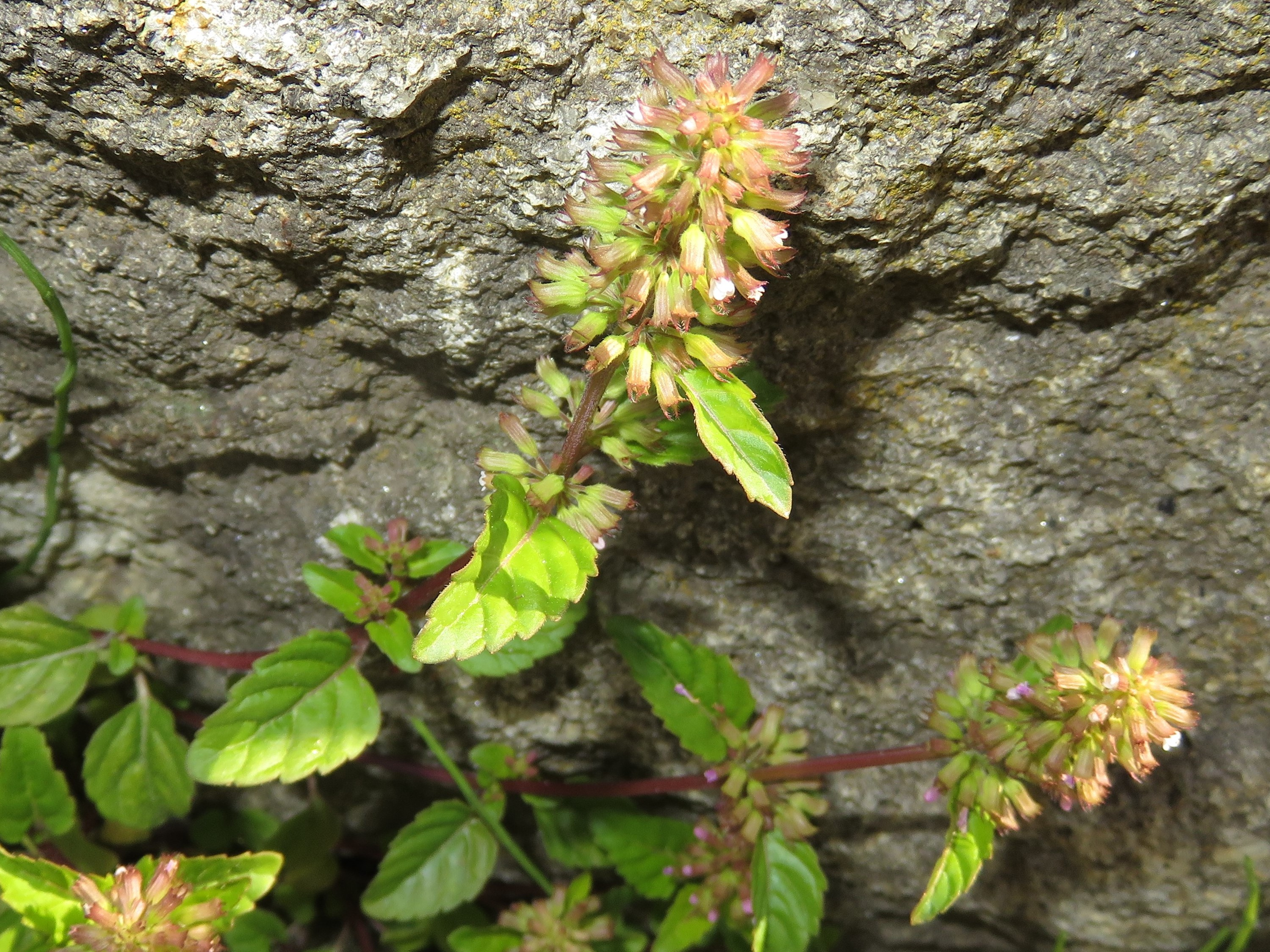 Clinopodium gracile, Aizu area, Fukushima pref., Japan